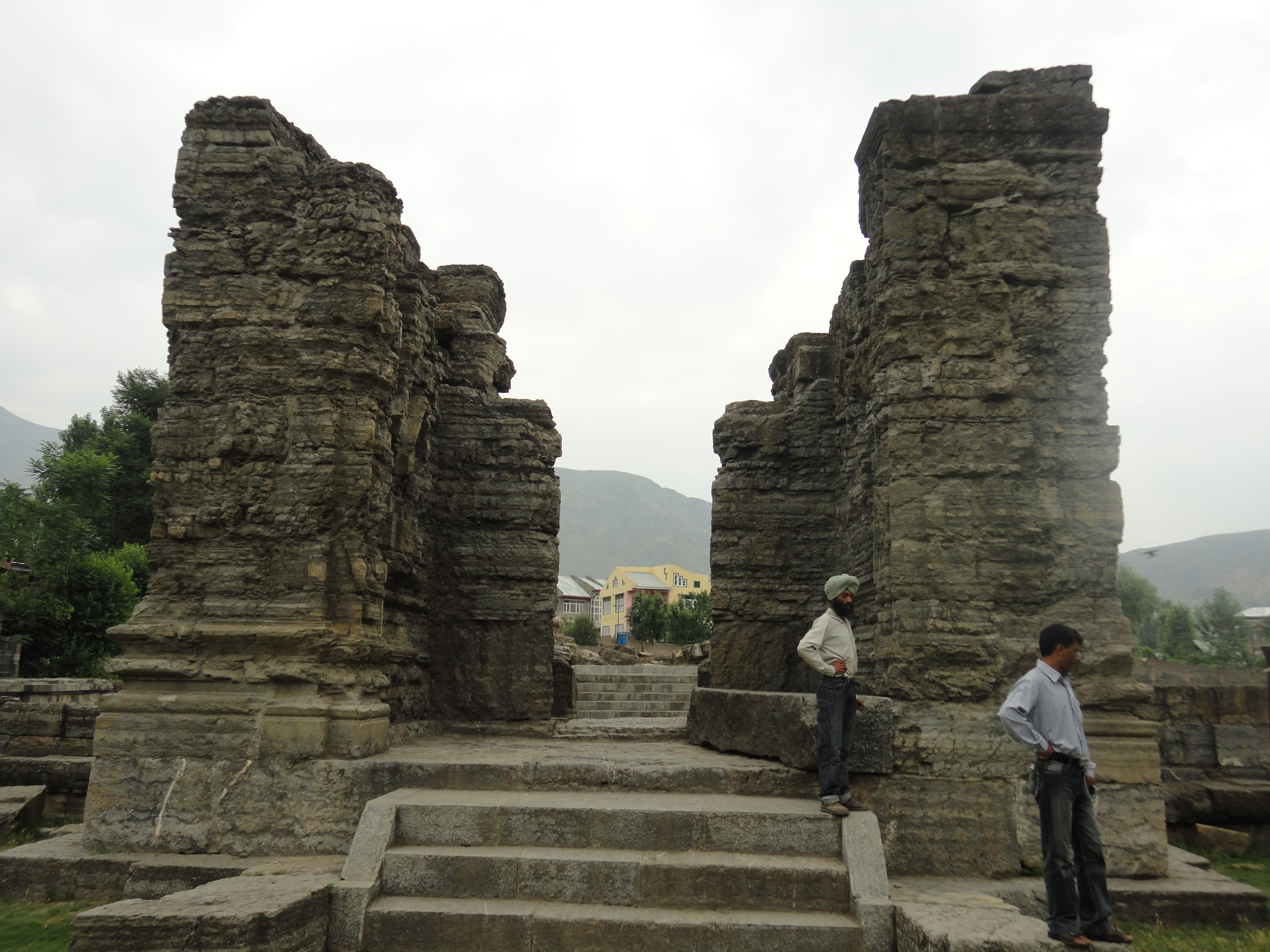 Avantisvara Temple